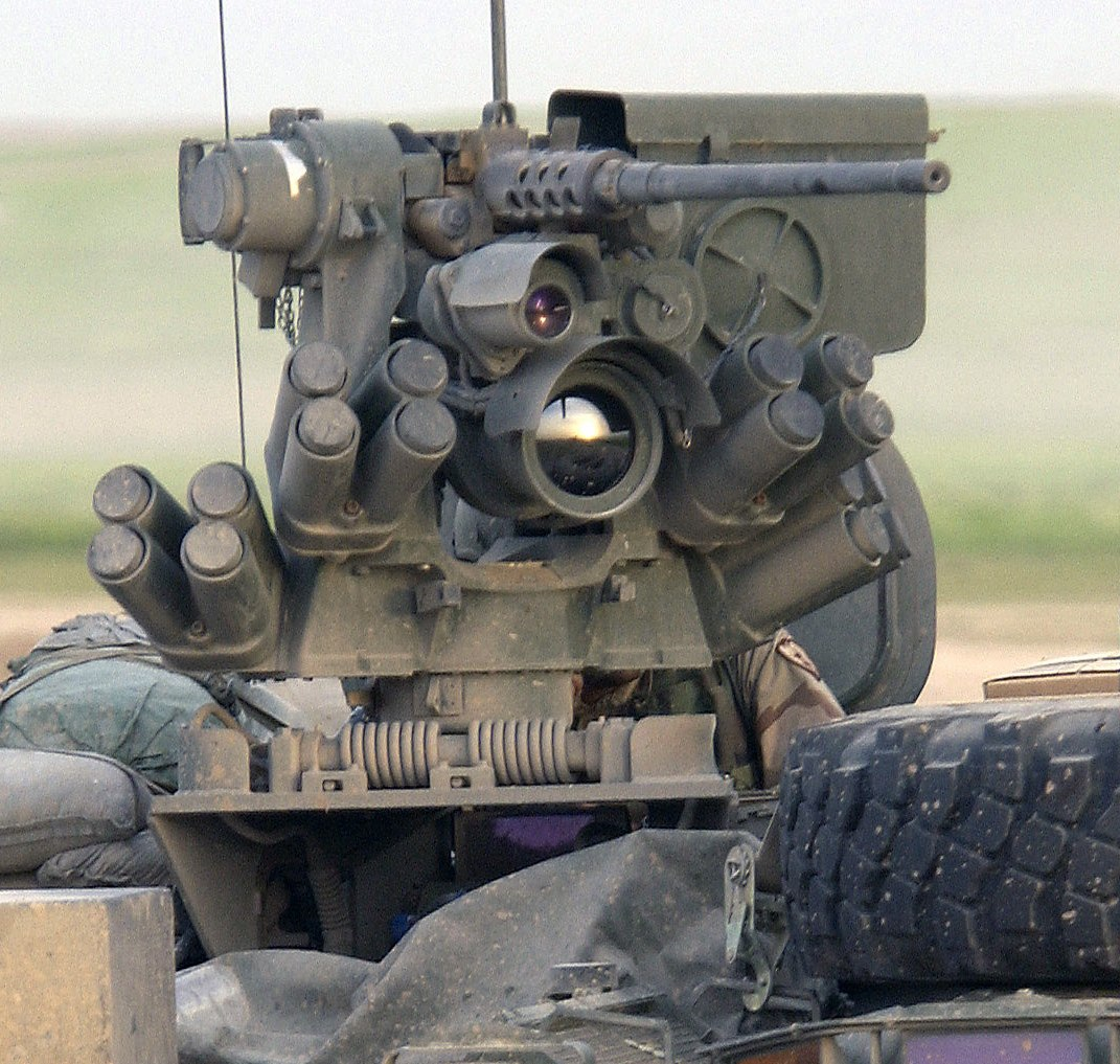 Kongsberg Protector Remote Weapon Station on top of an M1126 Stryker. Cropped from File:M1126 Stryker top close.jpg